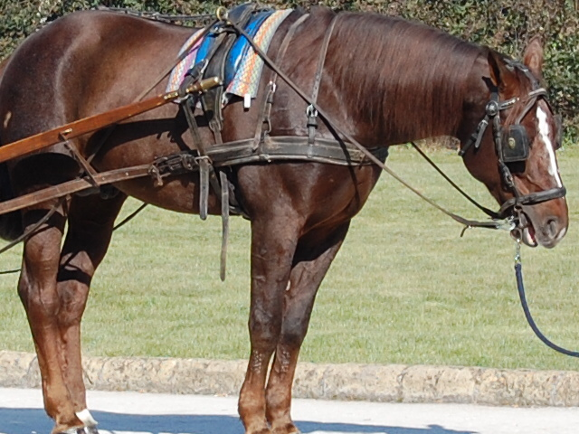 Horse